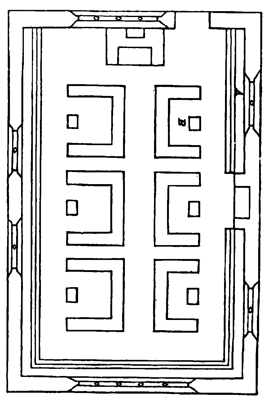 Layout of a Bell Monitorial school